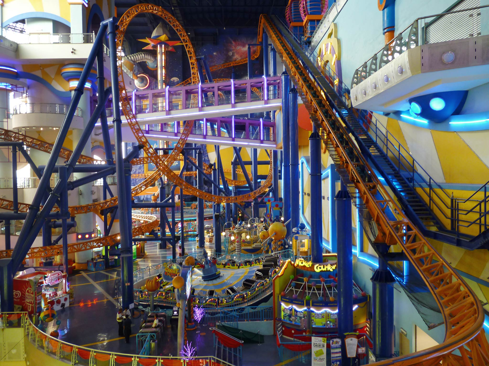 Cosmo's World theme park inside Berjaya Times Square in Feb 2011.